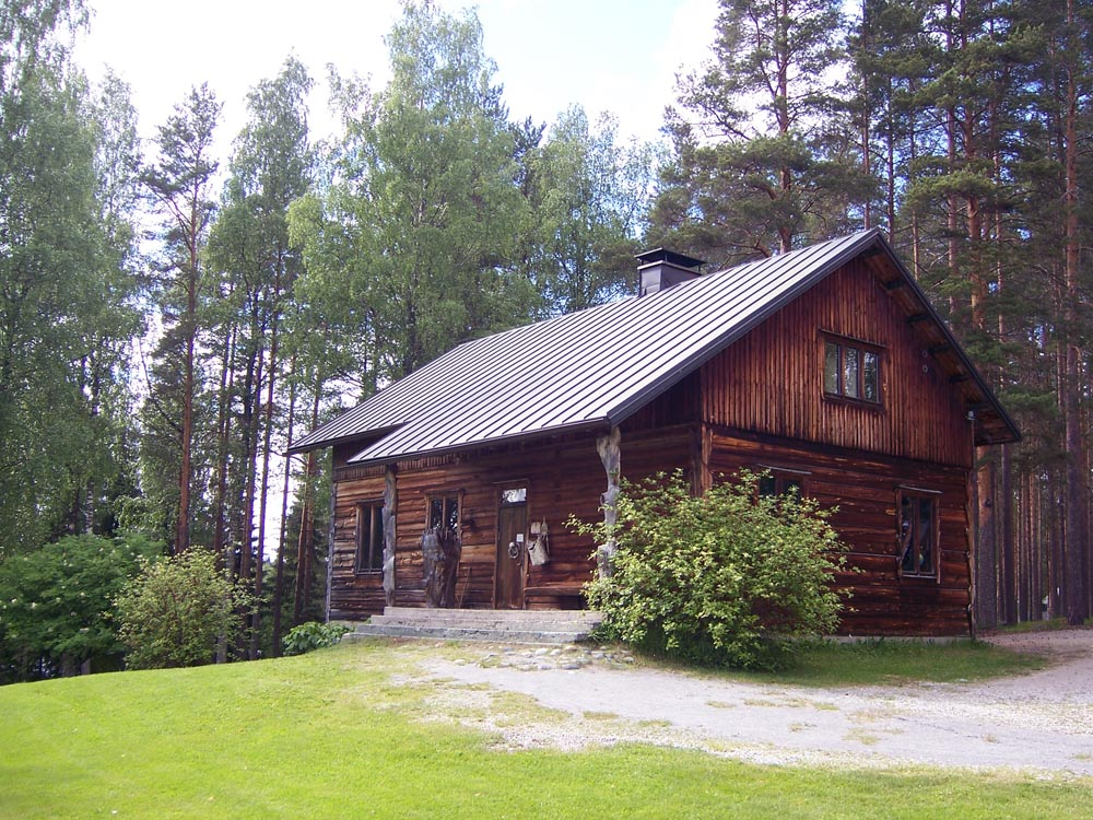 Sculptor Eva Ryynänen's atelier in Paateri, Vuonislahti, Lieksa, Finland.